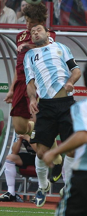 Andrey Arshavin against Javier Mascherano